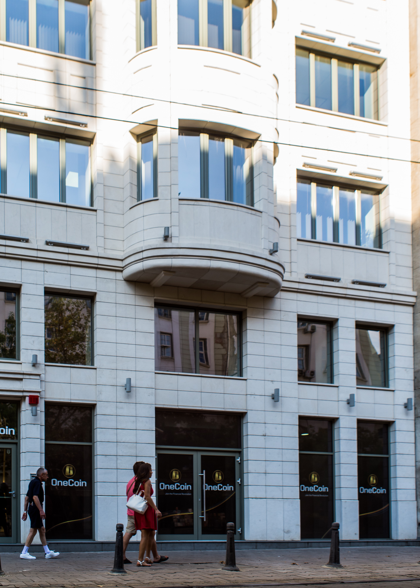 The main office of OneCoin, located in Sofia, Bulgaria